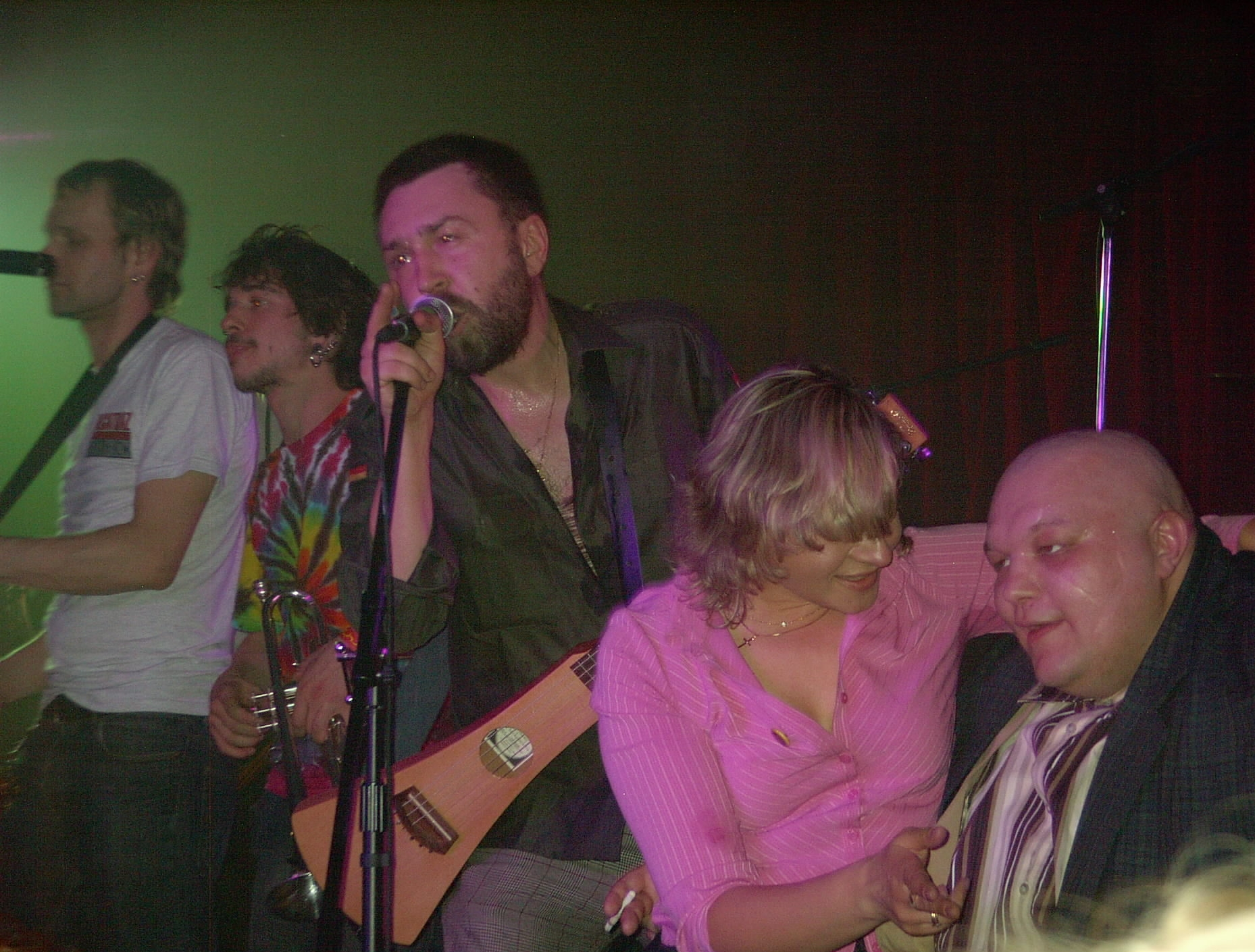 Sergei Shnurov (Shnur), Leningrad and Baretsky performing in San Francisco, April 2007.